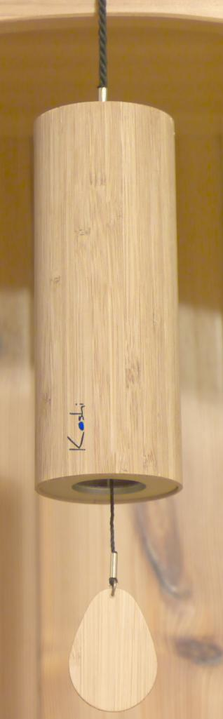 Wind chime "Aqua" manufactured by Koshi (France)